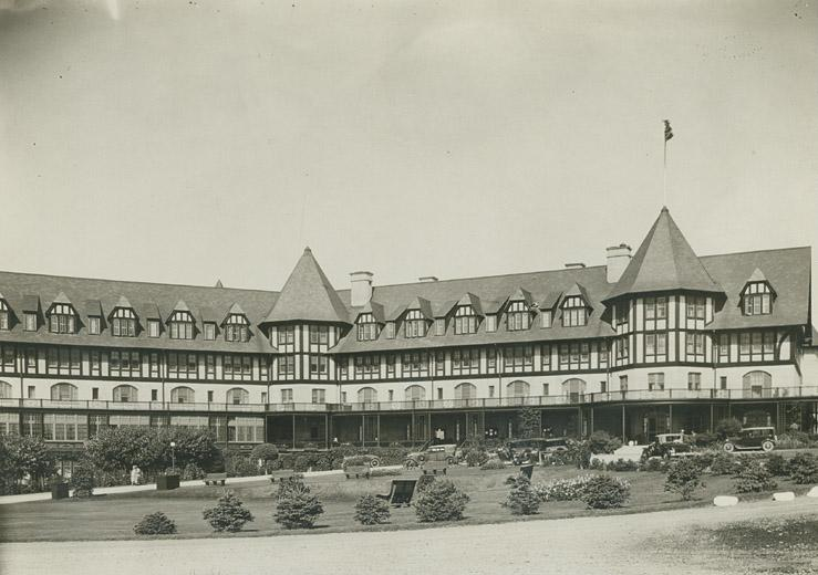 The Algonquin hotel, St. Andrews, New Brunswick, Canada.